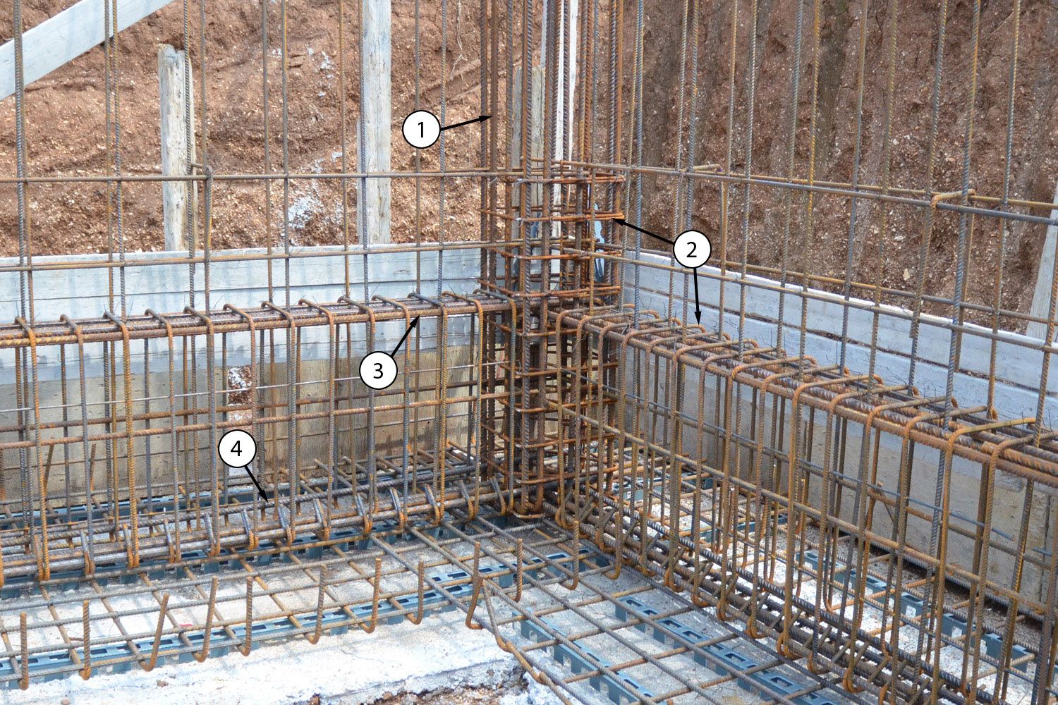 Reinforced concrete foundation.